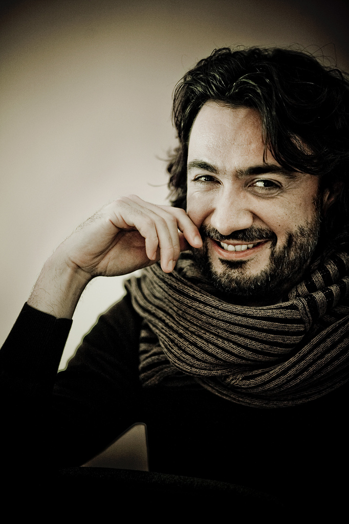 Tenor David Alegret